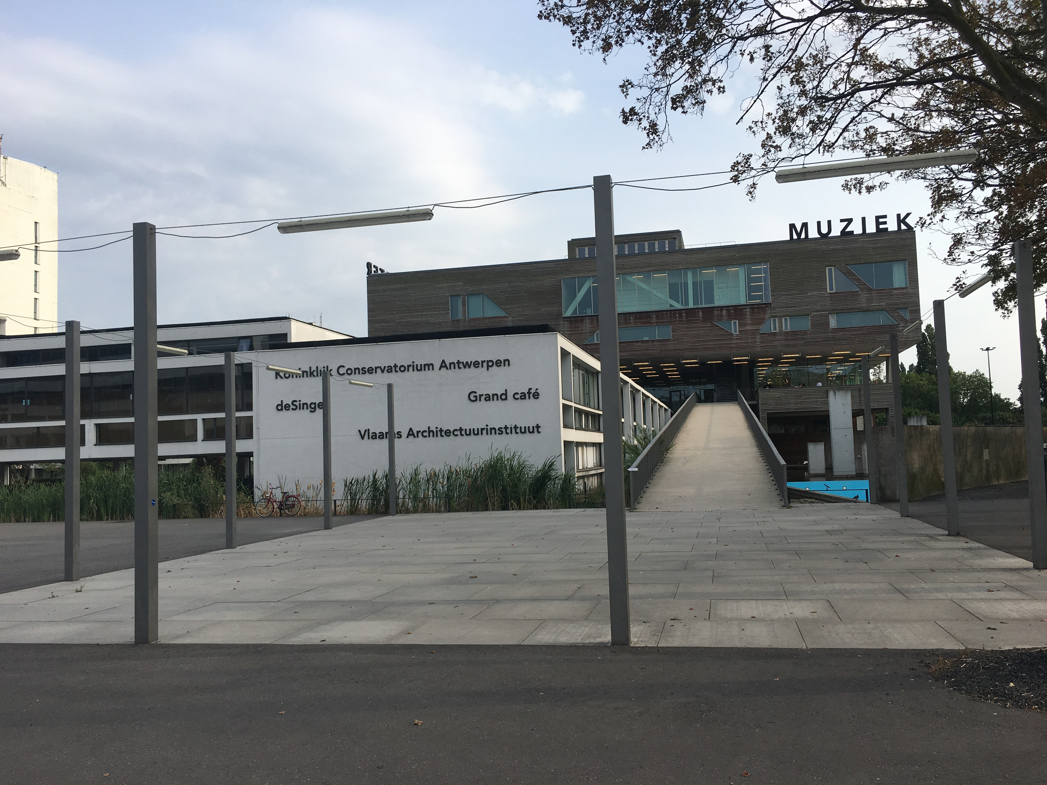 Royal Conservatoire Antwerp